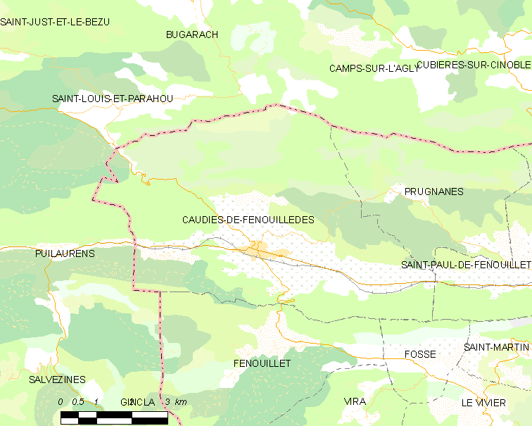 Map of French municipality